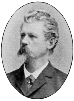 Image scanned from the book "Svenskt Porträttgalleri XX - Arkitekter, Bildhuggare, Målare m.fl. " ("Swedish Portrait Gallery XX - Architects, Sculptors, Painters, ") published 1901